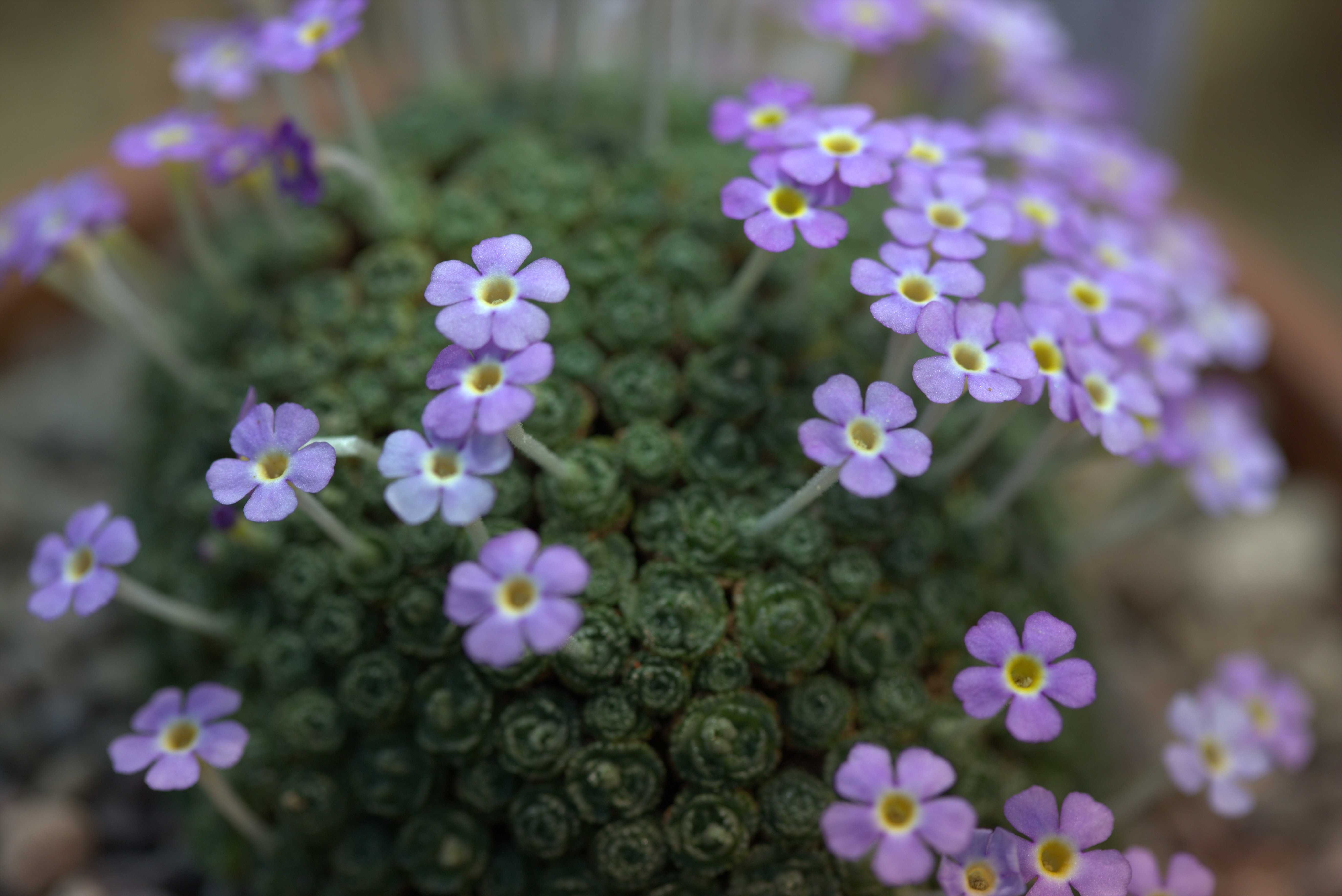 Dionysia mozaffarianii at Gothenburg Botanical Garden in 2015. Plant id: T42 100 -10